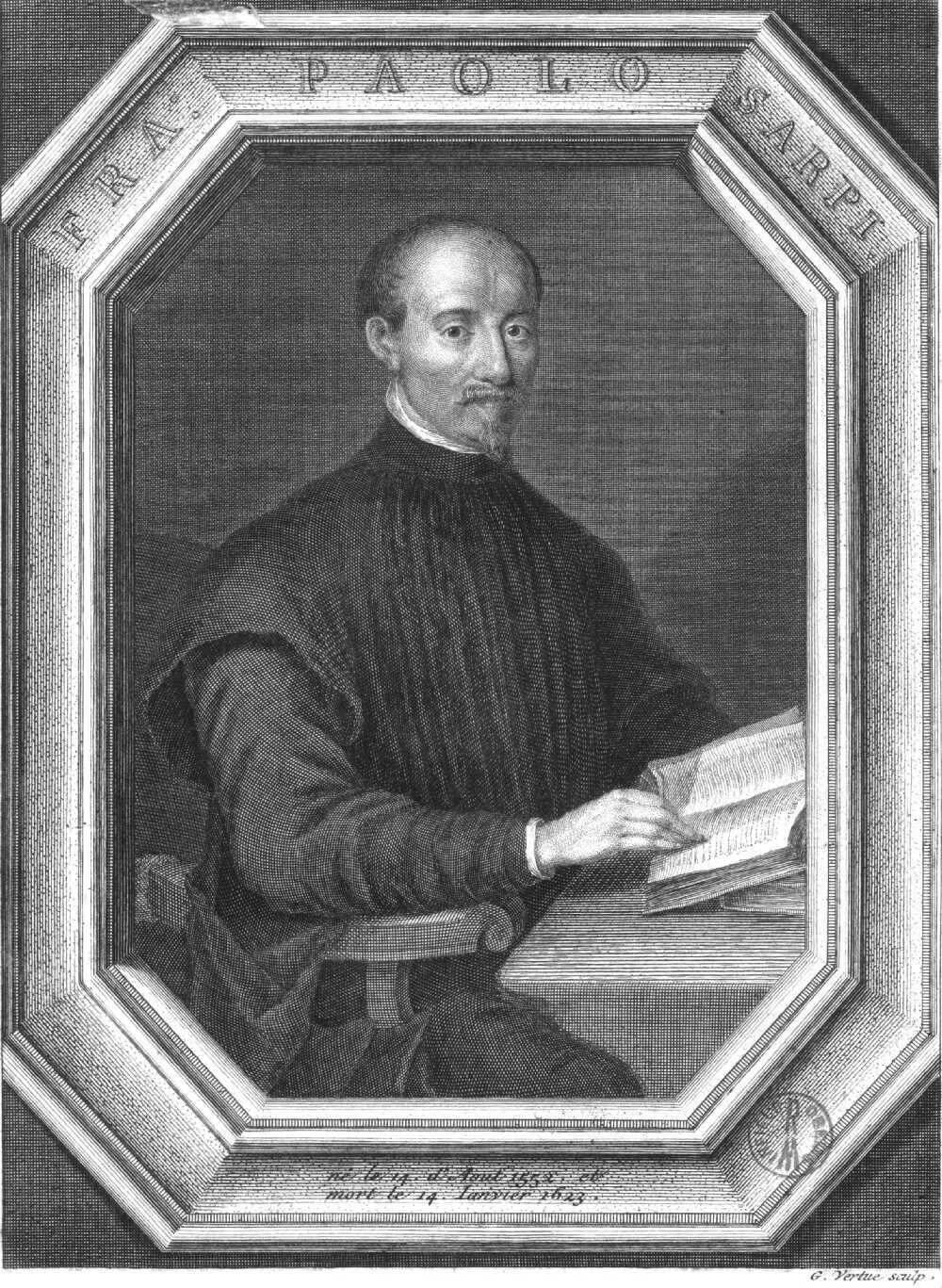 Portrait of Paolo Sarpi